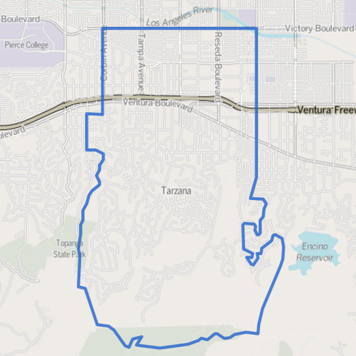 Boundary map of Tarzana neighborhood of Los Angeles, in the southwestern San Fernando Valley. Map from Los Angeles Times website.